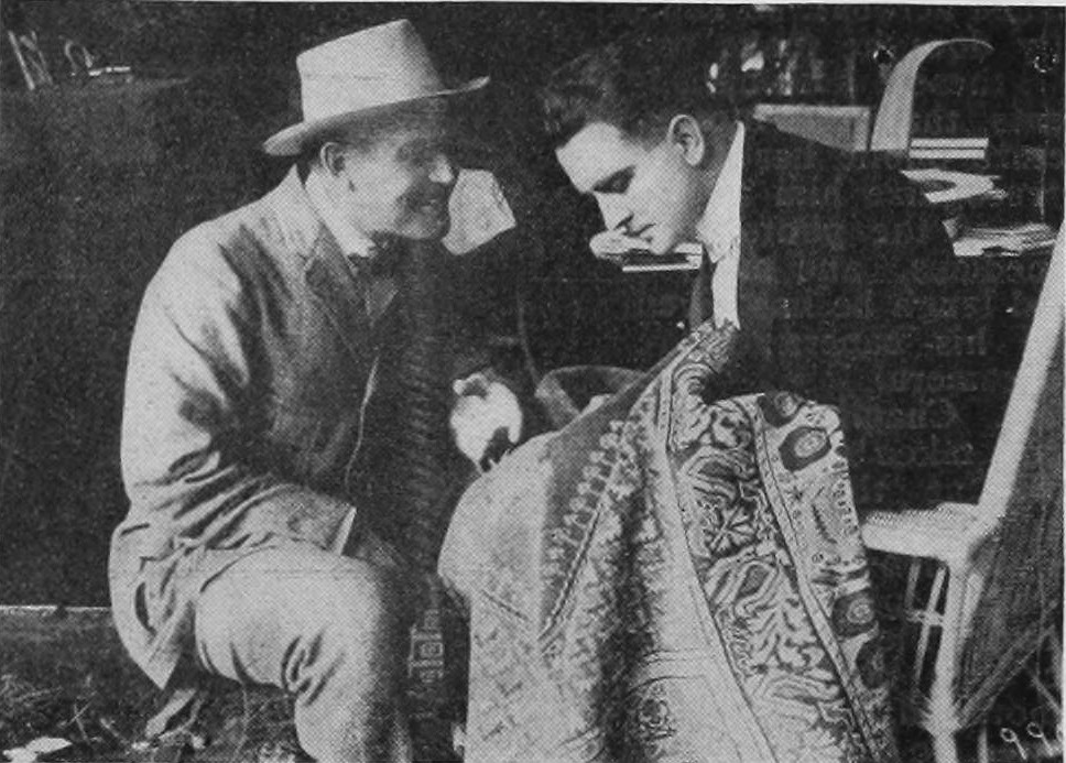 Guy Oliver and Wheeler Oakman in a still from the lost film The Carpet from Bagdad (1915), as reprinted in the journal Motography